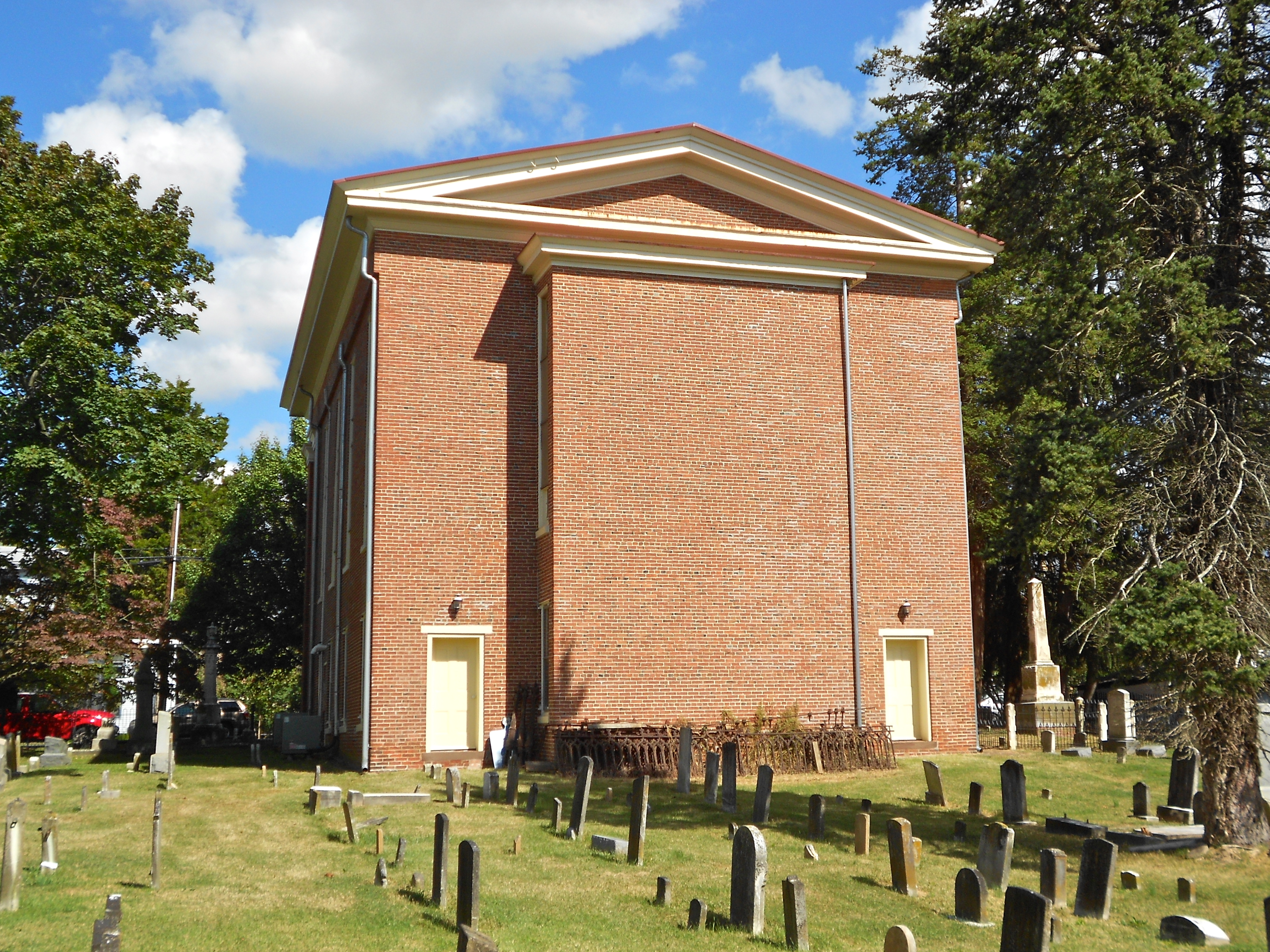 Old St. Paul's Methodist Episcopal Church listed on the NRHP on May 13, 1982. On High St., Odessa, New Castle County, Delaware. This is the main door in front. The doors behind the iron railing, according to a neighbor, open up to the main church hall. Newlyweds would stand and wave to the crowd from there. Faces north with many trees in front of it. Try photographing it in winter after the leave have fallen. Samuel Sloan architect.